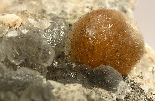 Ferrierite-Mg Locality: Kamloops Lake, Kamloops Mining Division, British Columbia, Canada (Locality at ) Size: 5 x 4 x 1.5 cm. An exceptional radial ball of the rare zeolite Ferrierite. The burnt-orange color and luster are both excellent, but to find such a ball .7 cm across is almost unheard of on the open market! Ex. Charlie Key stock.